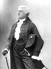 The French actor, Pierre Berton, as Baron Scarpia in Victorien Sardou's play La Tosca